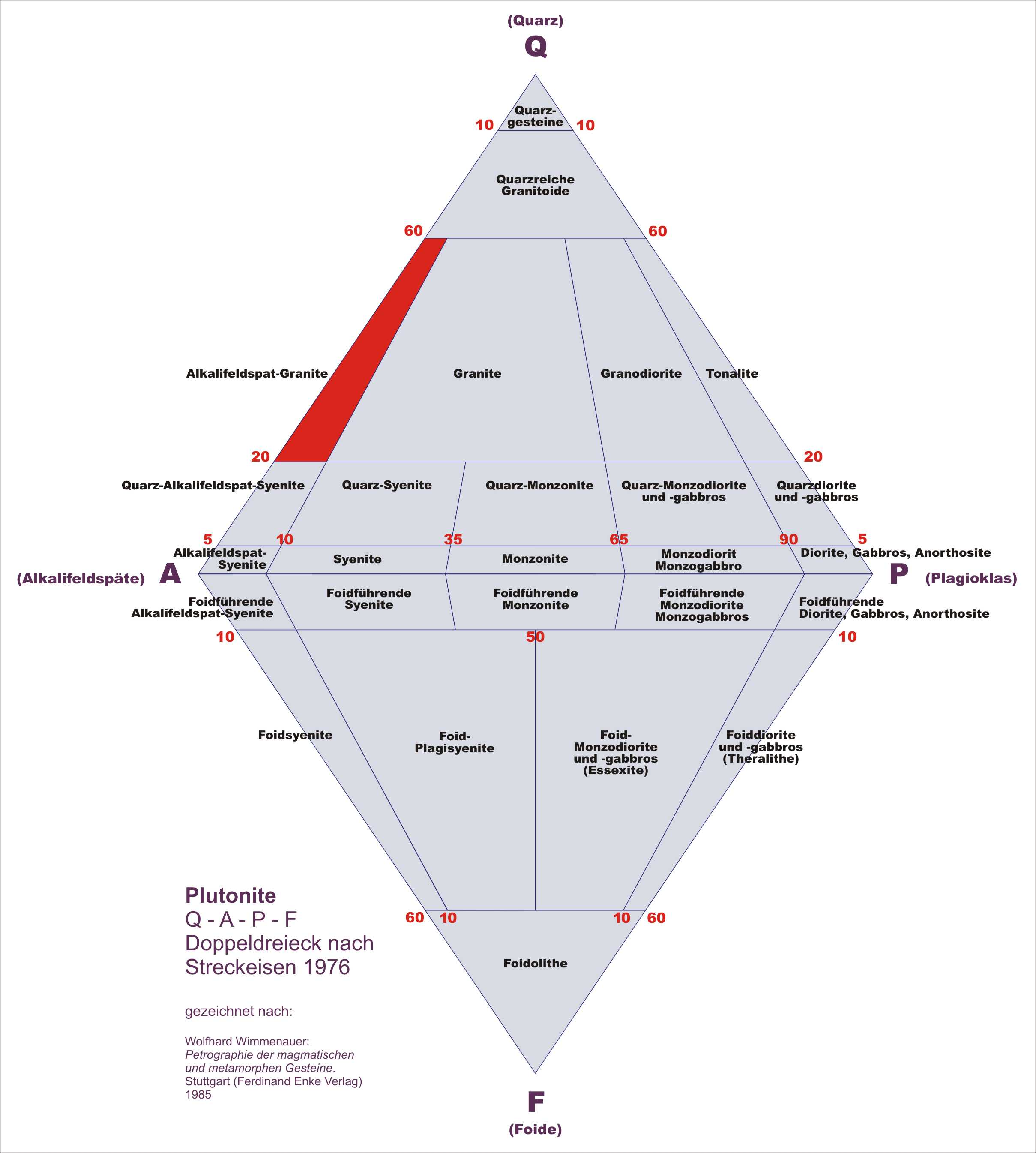 QAPF diagram (Alkali feldspar granites)